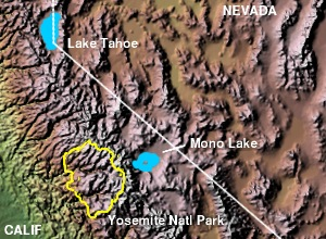 Locator map of Mono Lake in Eastern California and Western Nevada